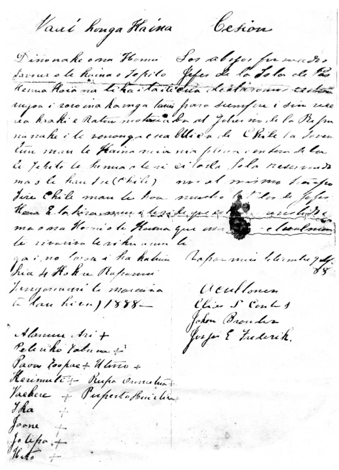 Treaty of Cessation’: Cesion and Vaai Hanga Kainga, Salomon, A.A. [for Captain Policarpo Toro, Chilean Navy] (1888) (National Historic Archives of Chile)